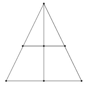 An image of the game board for Tsoro Yematatu